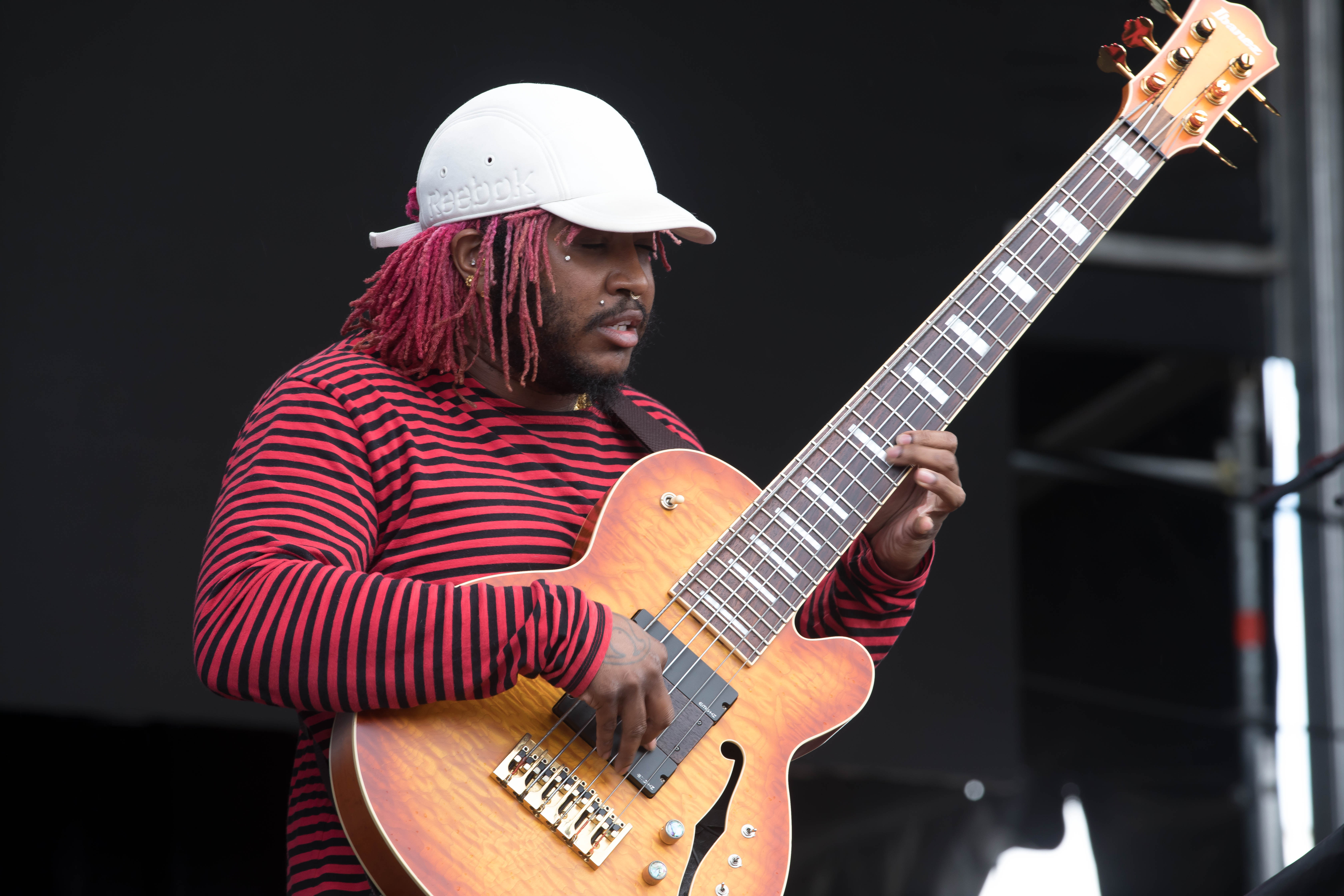 Thundercat performing at Sydney City Limits 2018